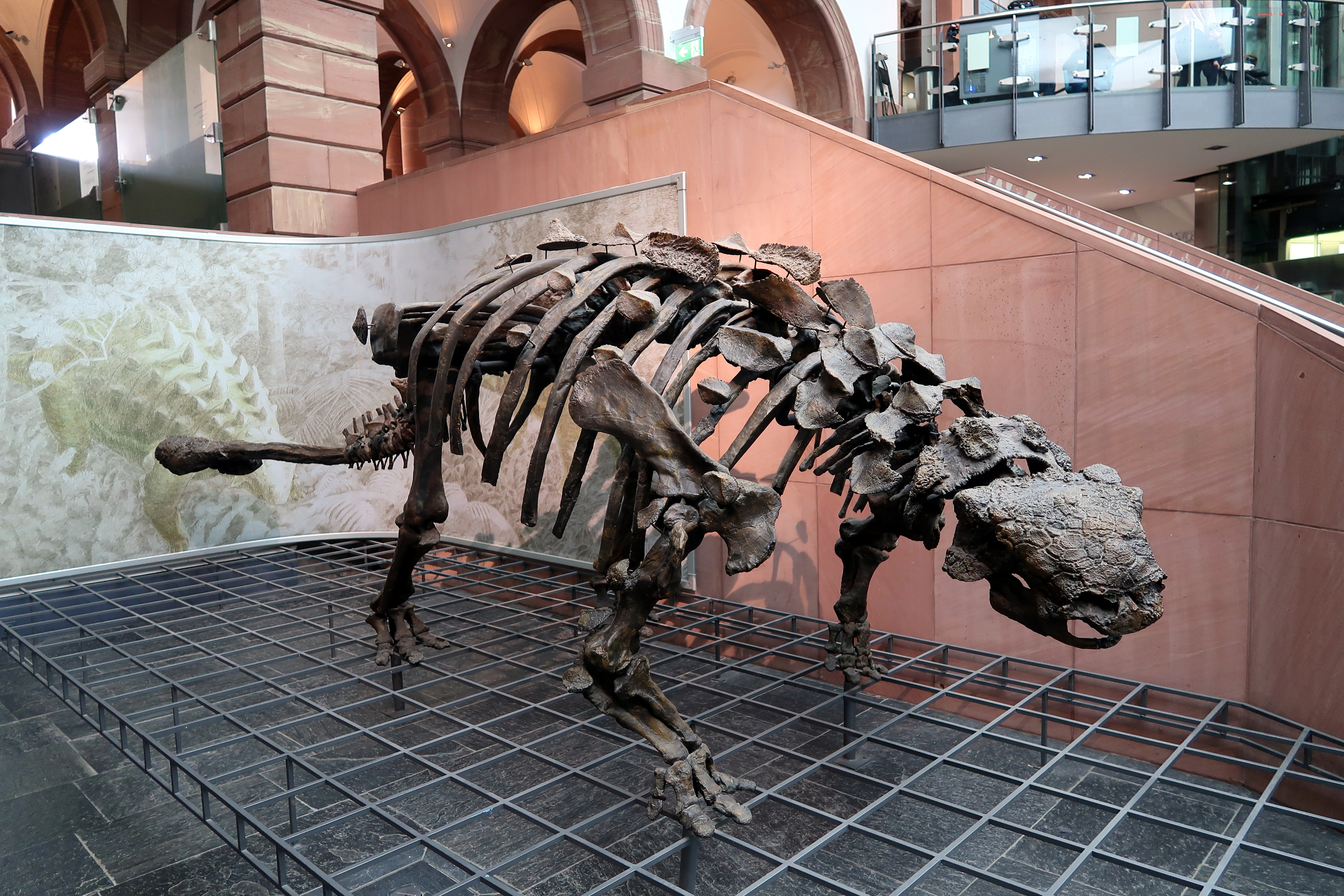 Skeletal mount of Scolosaurus thronus (based on holotype ROM 1930, formerly assigned to Euoplocephalus)